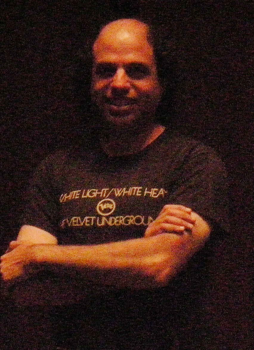 Richie Unterberger (author of White Light/White Heat: The Velvet Underground Day-By-Day, 2009) appearing at the Seattle Central Library, along with Doug Yule (formerly of the Velvet Underground, not shown).